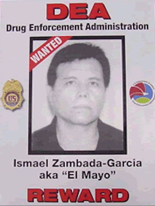 Wanted poster of Ismael Zambada García "El Mayo"